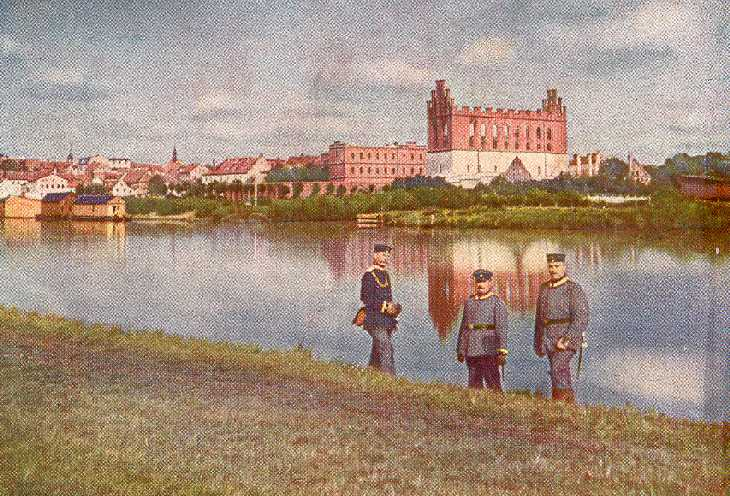 Gvardeisk (before 1945 Tapiau) Burg Tapiau